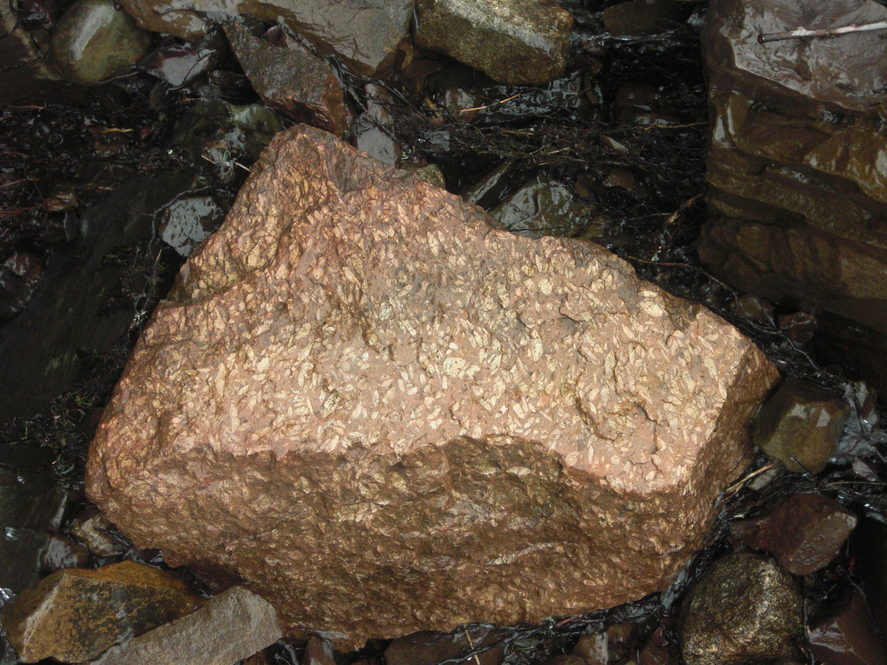 Rhomb porphyry, Krokskogen, Oslo Graben, Norway